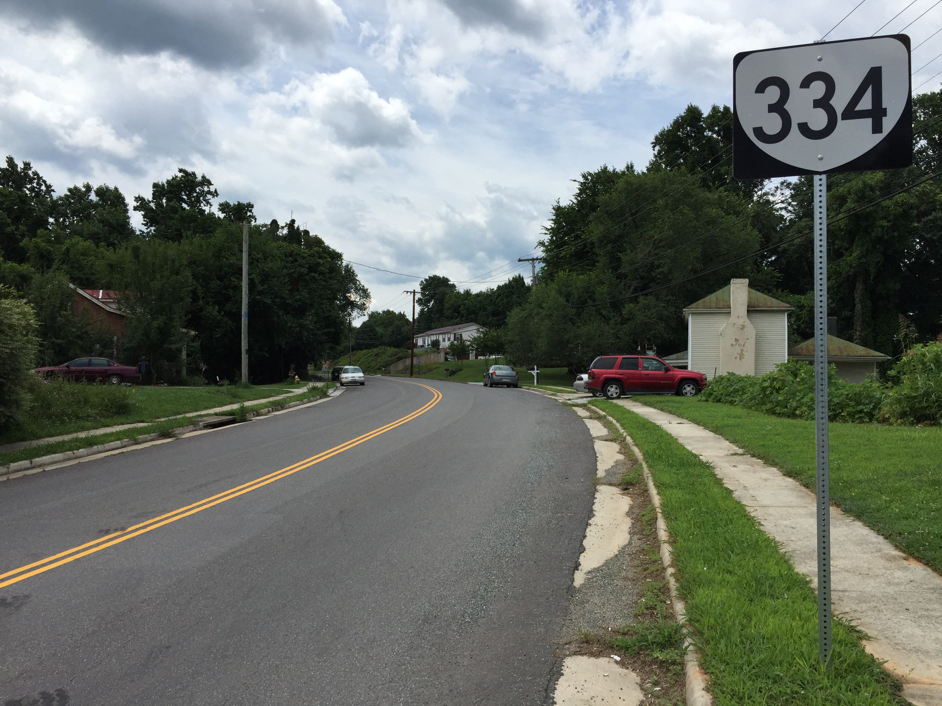 View south along Virginia State Route 334 (Colony Road) at Old Colony Road in Madison Heights, Amherst County, Virginia